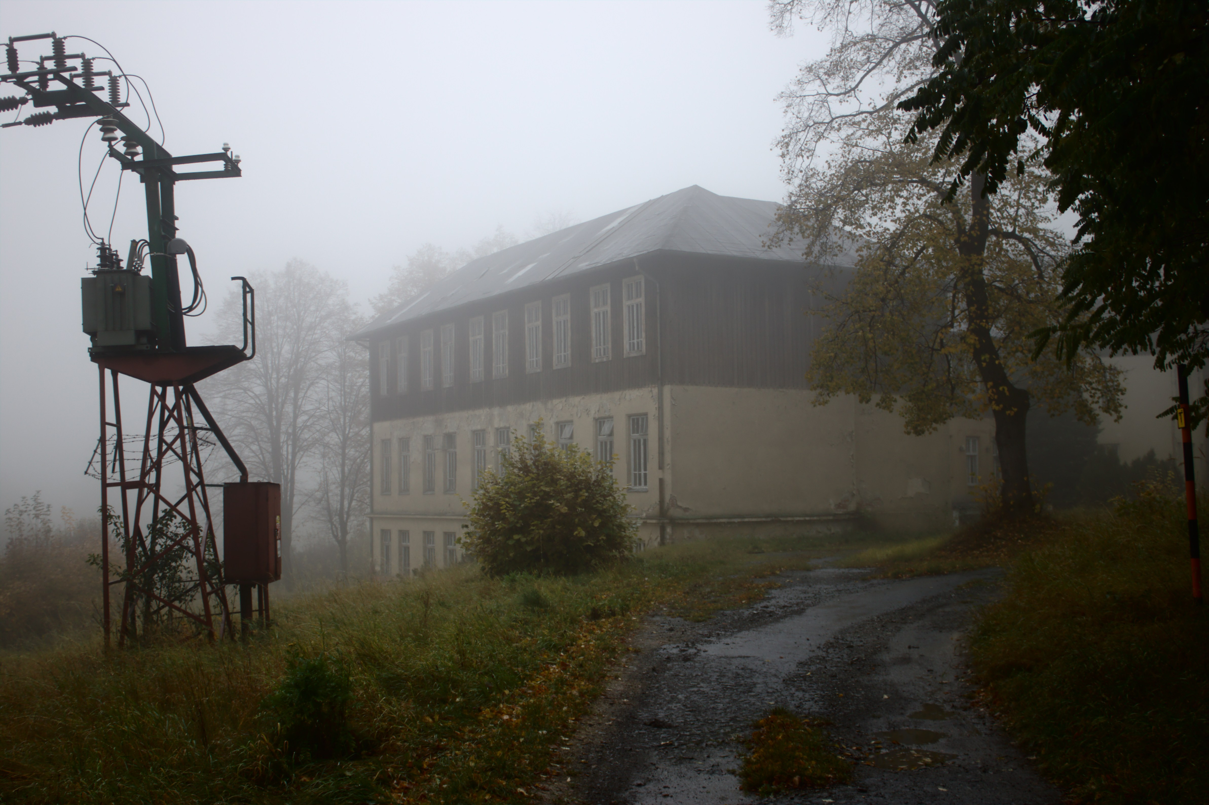 A former sanatorium in the village of Žáry, Moravian-Silesian Region, CZ